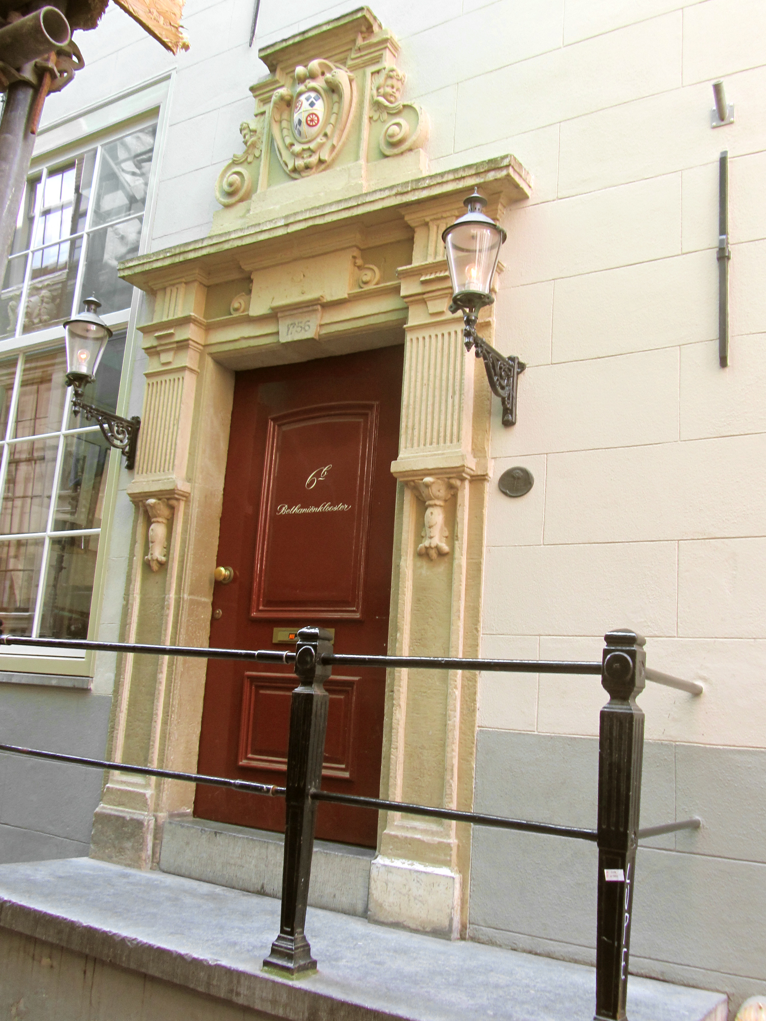 Entrance Gate of the Bethaniënklooster (Convent of the Sisters of Saint Mary of Bethany) at Barndesteeg in Amsterdam